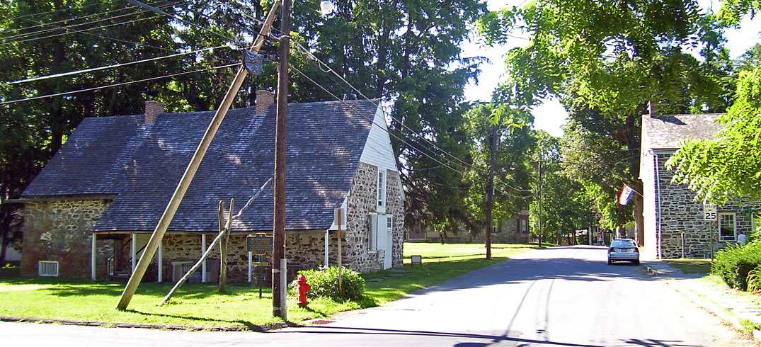 Photographed by Daniel Case